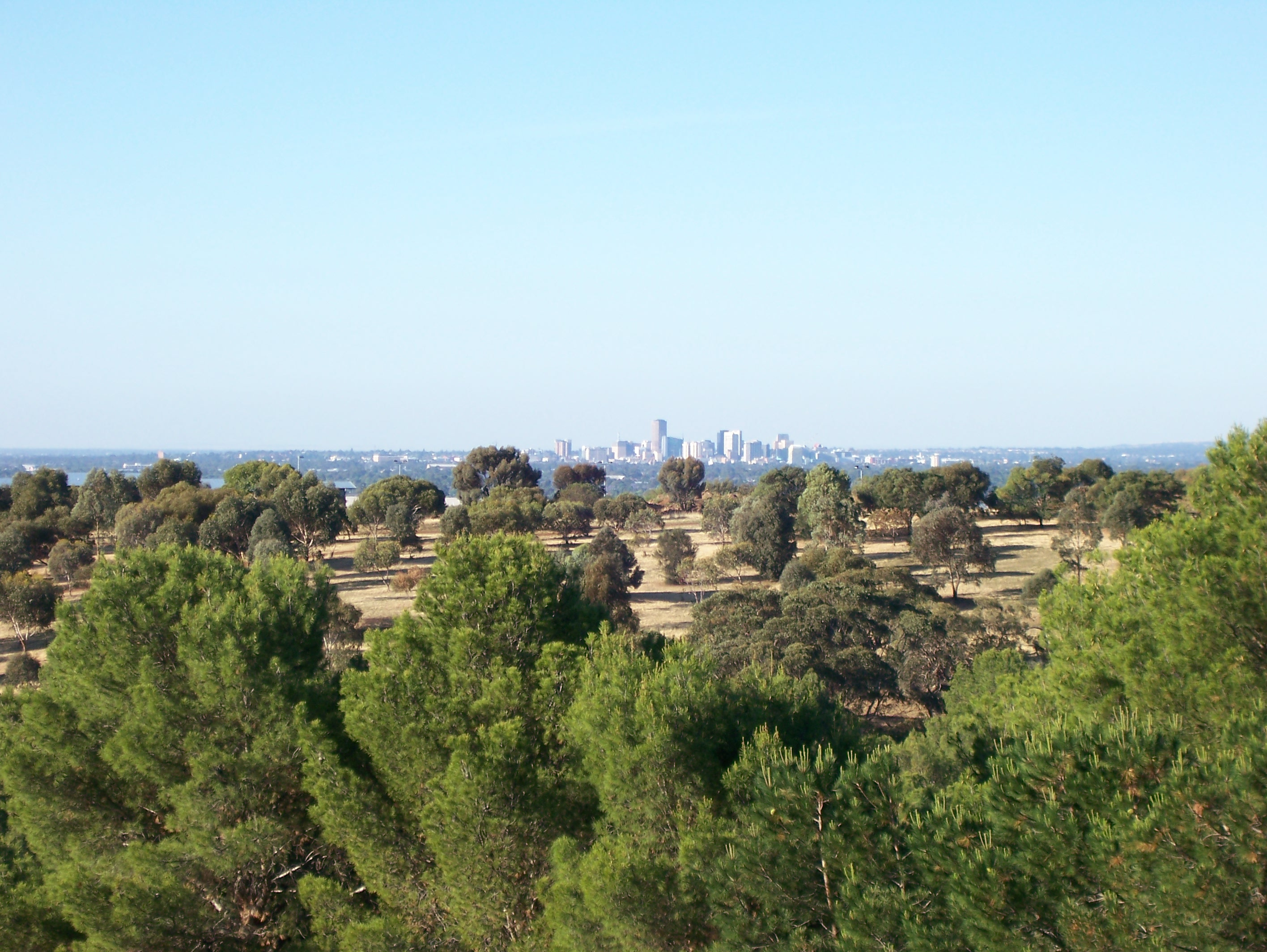 View of the Adelaide skyline from Flinders University.